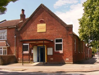 Originally called Desborough Mission Hall, it was Eastleigh Congregational Church until the 1930s when it became Emmanuel. It has also been known as Sunshine Corner!